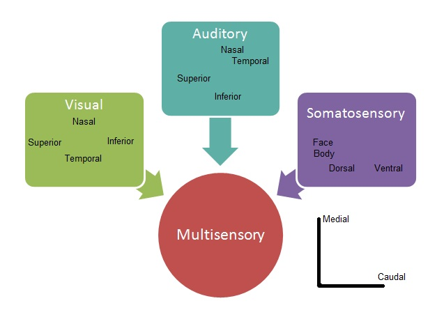 This is an image which basically summarizes the visual, auditory and somatosensory representation in the superior colliculus. When overlap of these common system happens, multisensory space is produced.